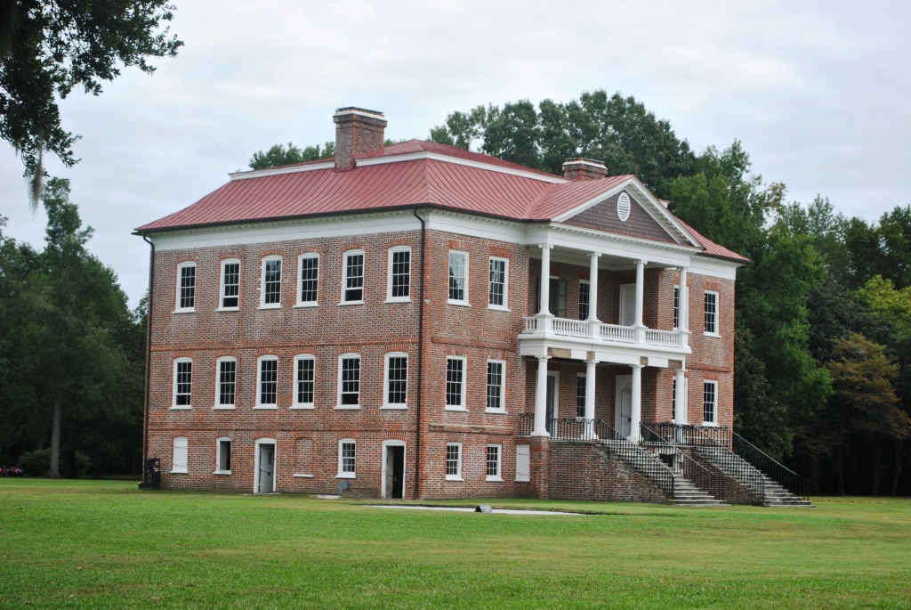 Drayton Hall